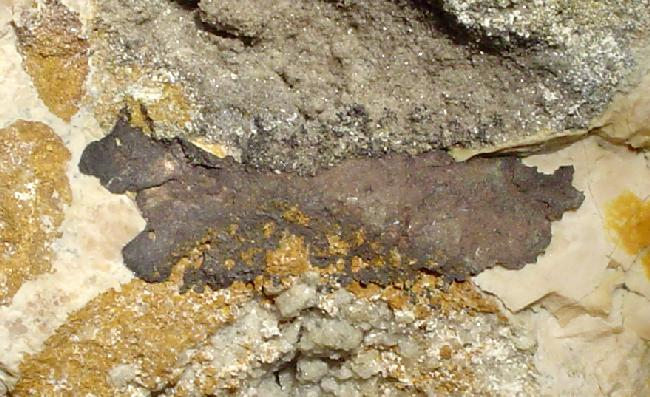 Silver Locality: Czar Mine (Czar Shaft), Copper Queen Mine (Halero Mine), Queen Hill, Bisbee, Warren District, Mule Mts, Cochise County, Arizona, USA (Locality at ) Size: 6.4 x 6.2 x 3.7 cm. An extremely rare and old Bisbee specimen of 2.2 cm of tarnished native leaf silver set on limestone matrix from the famous Czar Shaft. The silver is associated with the gray, drusy quartz above the silver. The Czar Shaft closed in 1944, but I would estimate that this piece probably dates to prior to World War I based on what other Arizona collectors have indicated to me. This is historic and very rare material from the Dennis Mullane Bisbee Collection. A Bisbee silver specimen is one of the rarest native silvers from a major ore mine in the USA to track down.